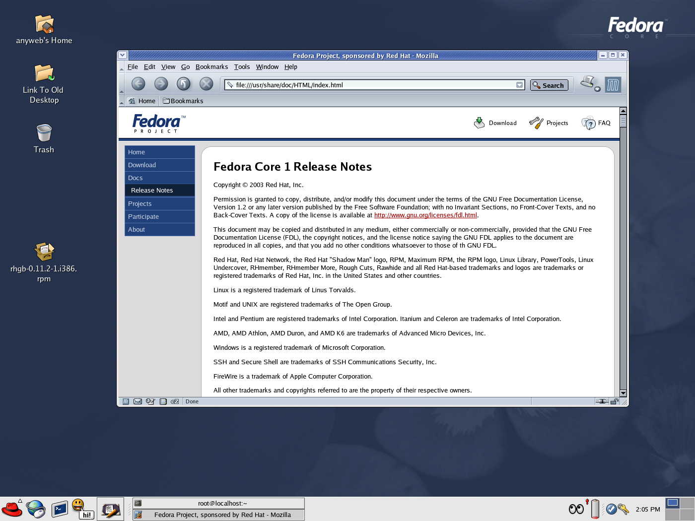 Fedora Core 1 running what can be Mozilla 1.4.1[1]